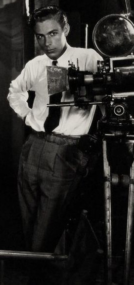 Edward Cronjager on the set of the 1928 film, Moran of the Marines Other information Cropped version of existing file on Commons: File:Moran of the Marines (1928) 1.jpg